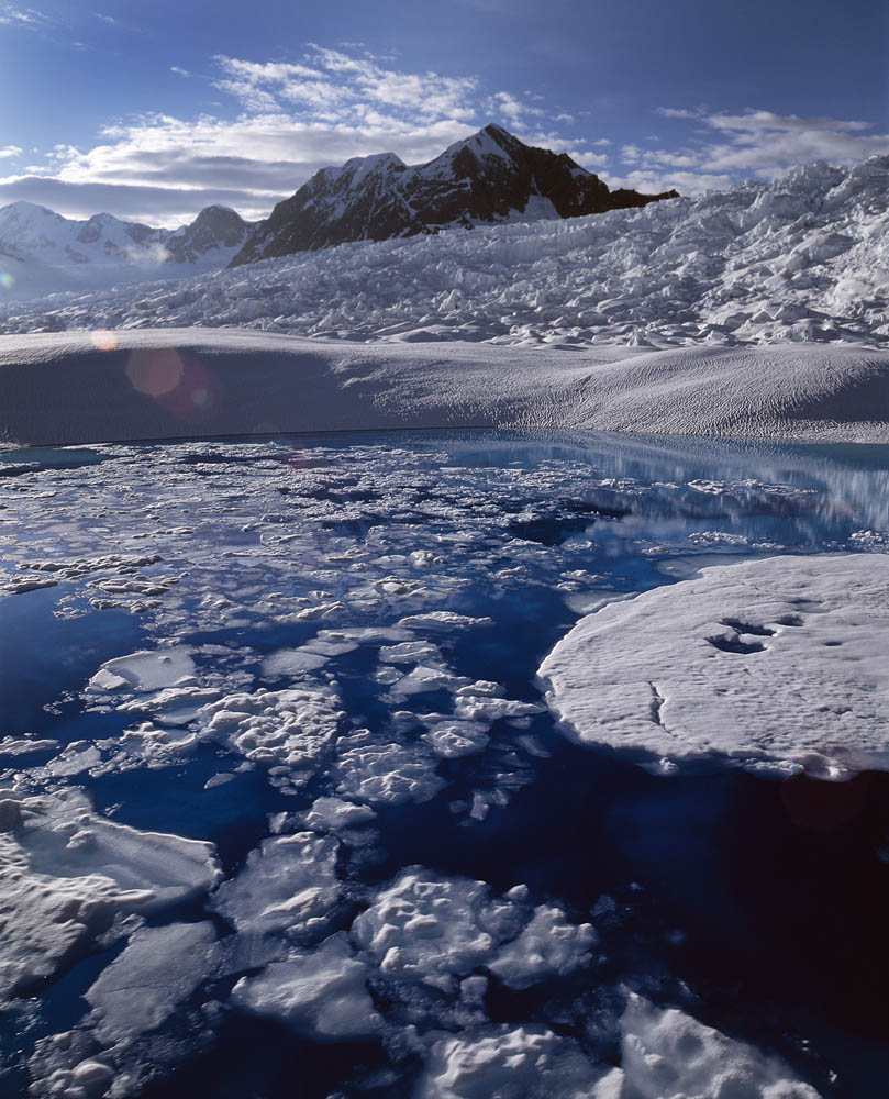 Melt water ponded at surface in the accumulation zone of Columbia Glacier, Alaska, in July 2008. To learn about the contributions of glaciers to sea level rise, visit: Credit: W. Tad Pfeffer, University of Colorado at Boulder NASA image use policy. NASA Goddard Space Flight Center enables NASA’s mission through four scientific endeavors: Earth Science, Heliophysics, Solar System Exploration, and Astrophysics. Goddard plays a leading role in NASA’s accomplishments by contributing compelling scientific knowledge to advance the Agency’s mission. Follow us on Twitter Like us on Facebook Find us on Instagram